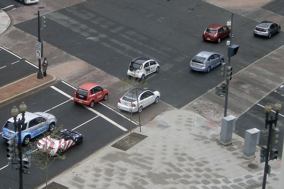 Chevy Volt, Nissan Leaf, Prius Plug-in, Mitsubishi i MiEV, CODA Sedan, Th!nk City, Chevy Equinox Fuel-Cell, and Tesla Roadster participating in EDTA's 2011 Innovation Motorcade at Washington, D.C.